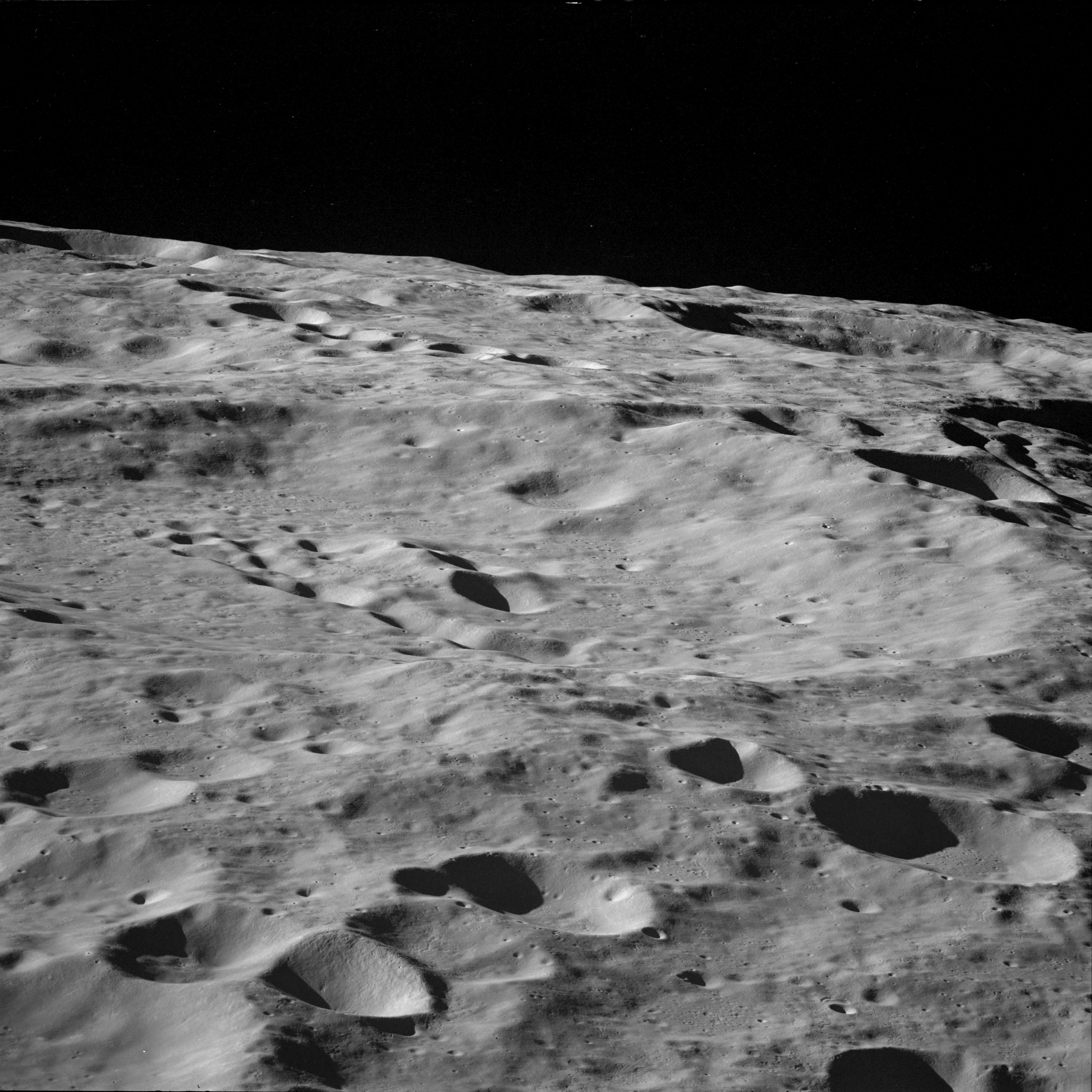 AS10-31-4653 oblique view towards NNW, showing most of Papaleksi crater.